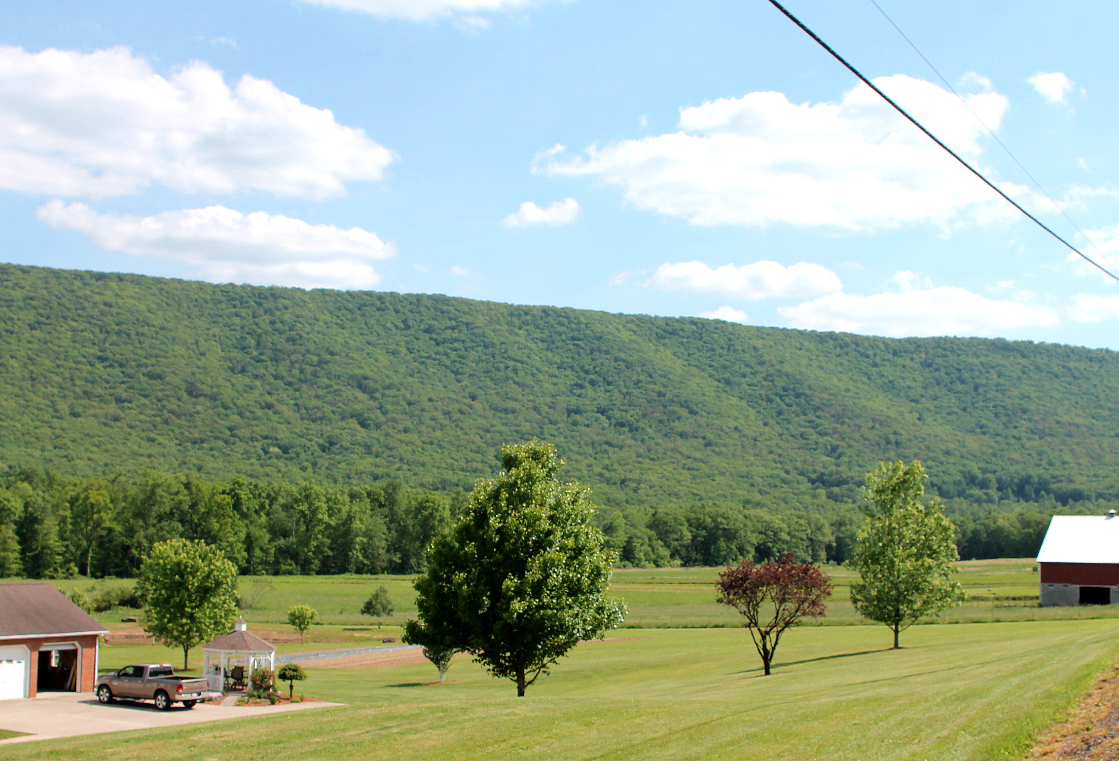 Nescopeck Mountain in Mifflin Township, Columbia County, Pennsylvania